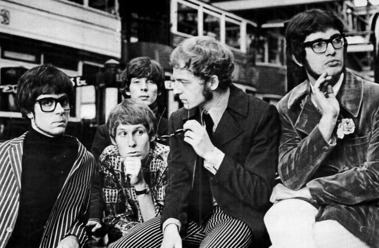 The band Manfred Mann with, from left to right Manfred Mann, Mike d'Abo, Klaus Voormann, Mike Hugg and Tom McGuinness. Trade ad for Manfred Mann's single "Just Like A Woman".To better adapt it to his respective Wikipedia article, the ad was cropped and cleaned in a graphics editing program. The original can be viewed at the source below.